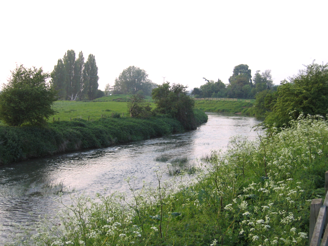 The River Ivel at Biggleswade, Beds. view downstream from below the Hill Lane bridge.